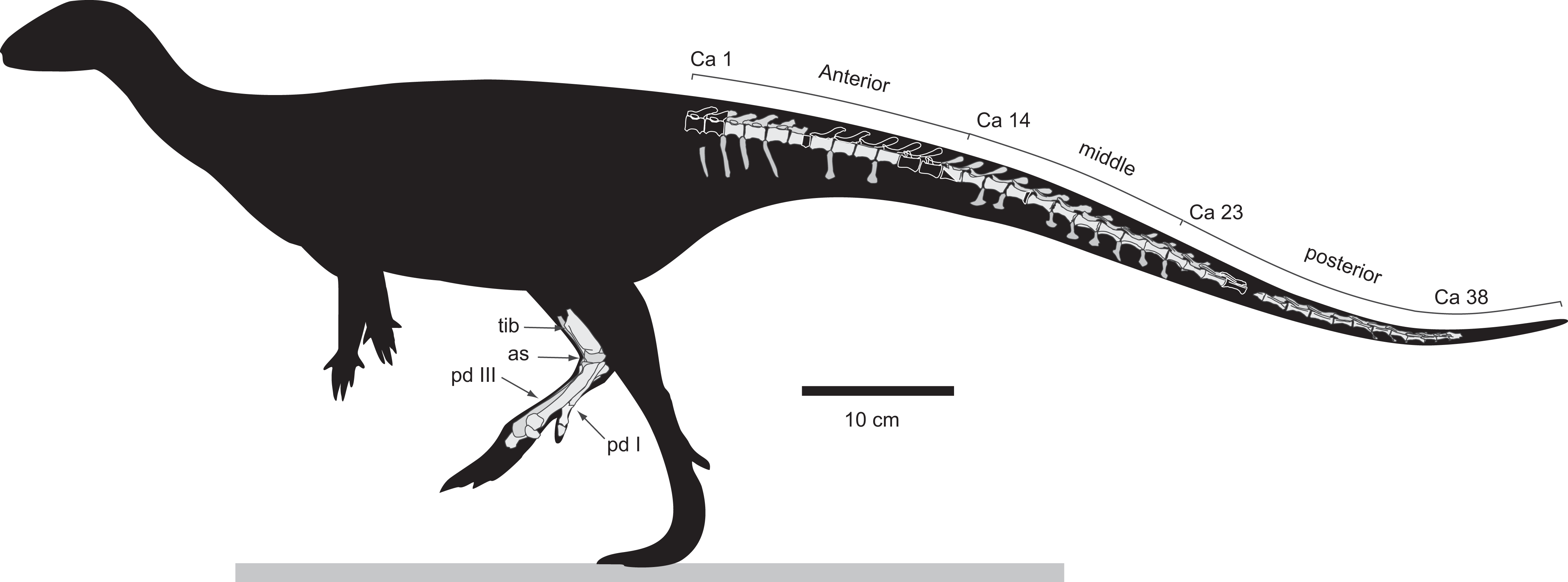 Figure 7: Diluvicursor pickeringi gen. et sp. nov. holotype (NMV P221080), schematic restoration in left lateral view, showing preserved bones (light shading) and incomplete caudal vertebrae (outlined). Abbreviations: as, astragalus; Ca #, designated caudal vertebral position; pd #, pedal digit number; tib, tibia.